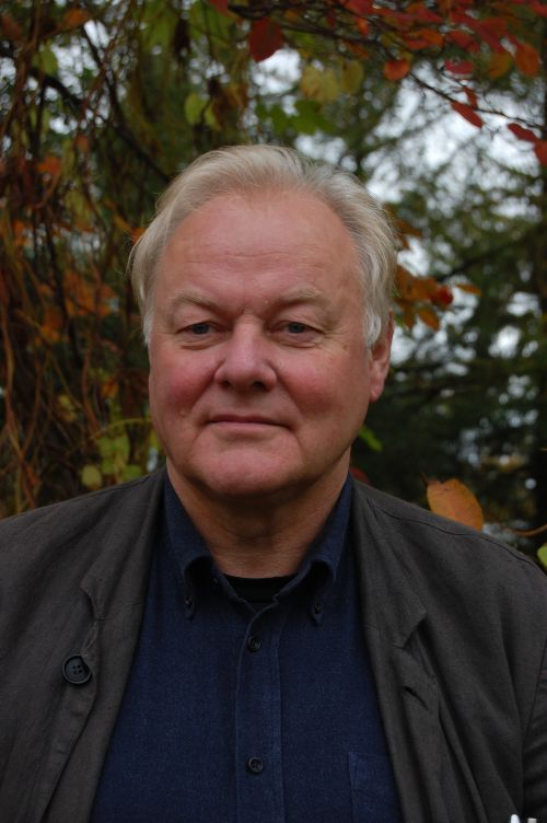 Reinhard_Pfriem_Oldenburg